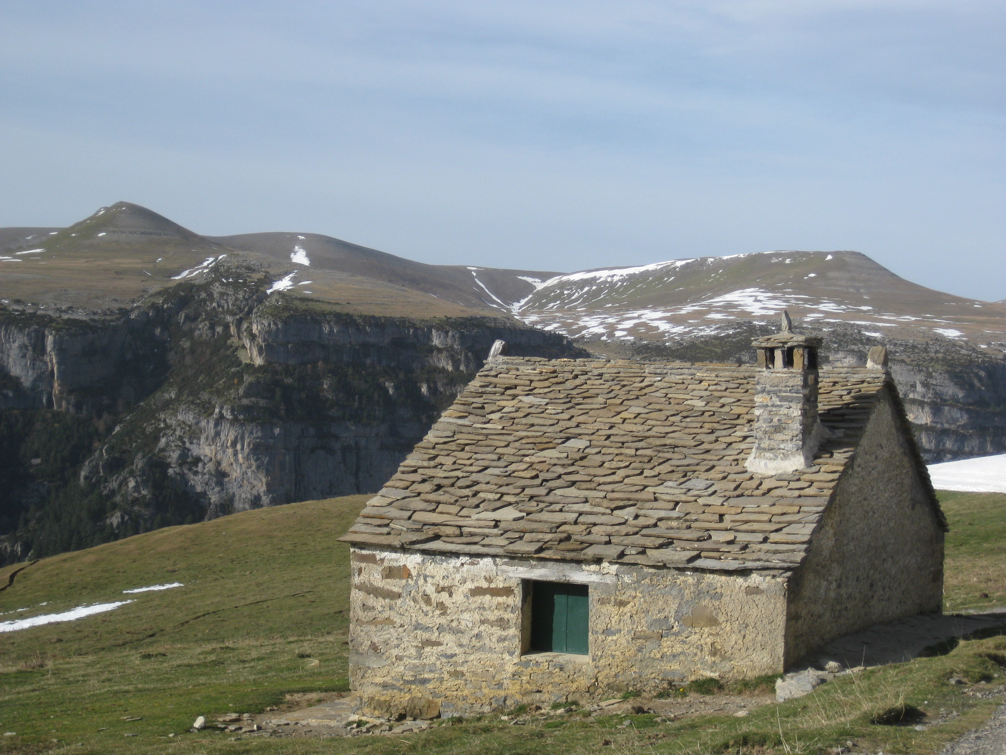 Mountain hut in Aragonese Pyrenees